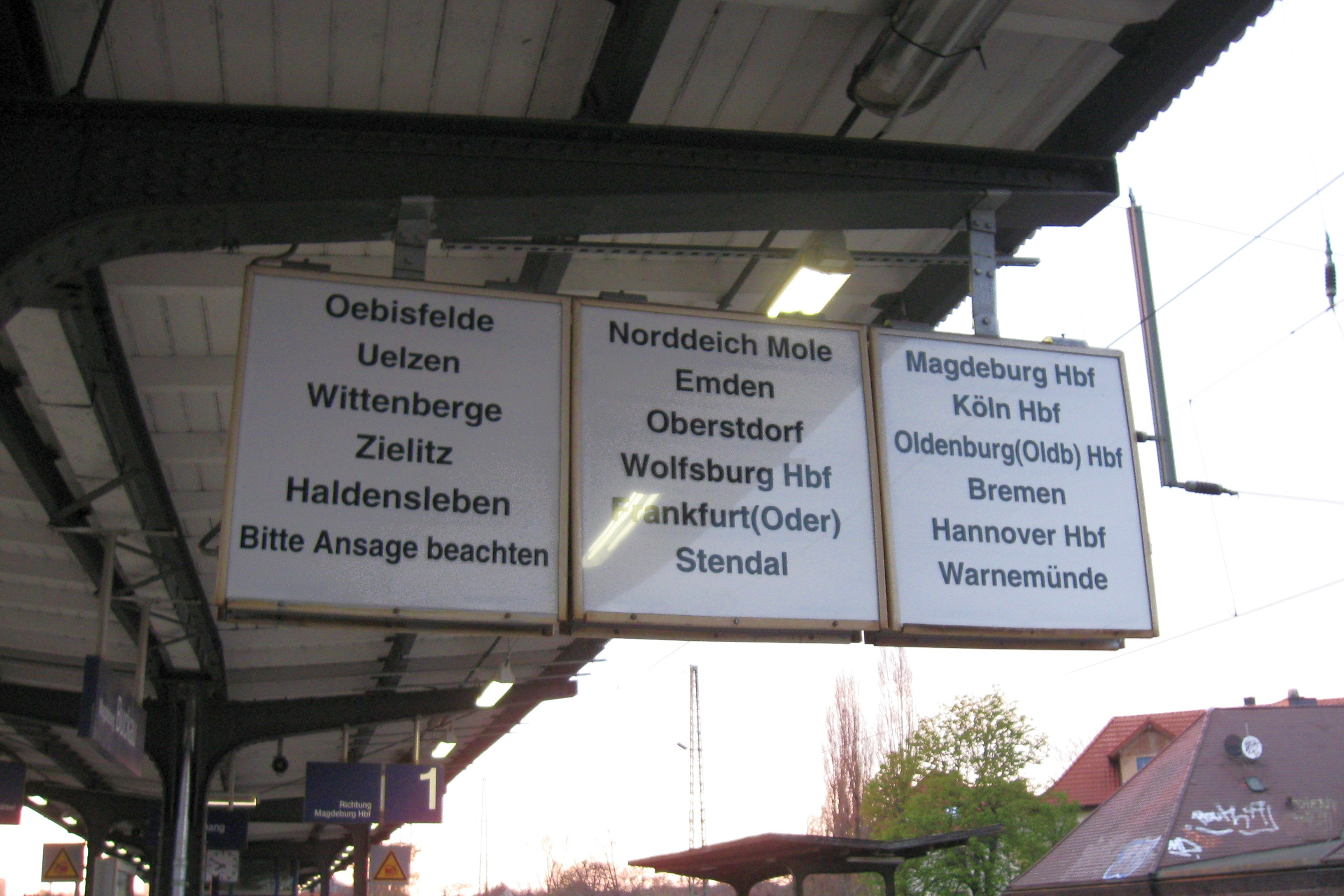 train indicator at station Magdeburg-Buckau